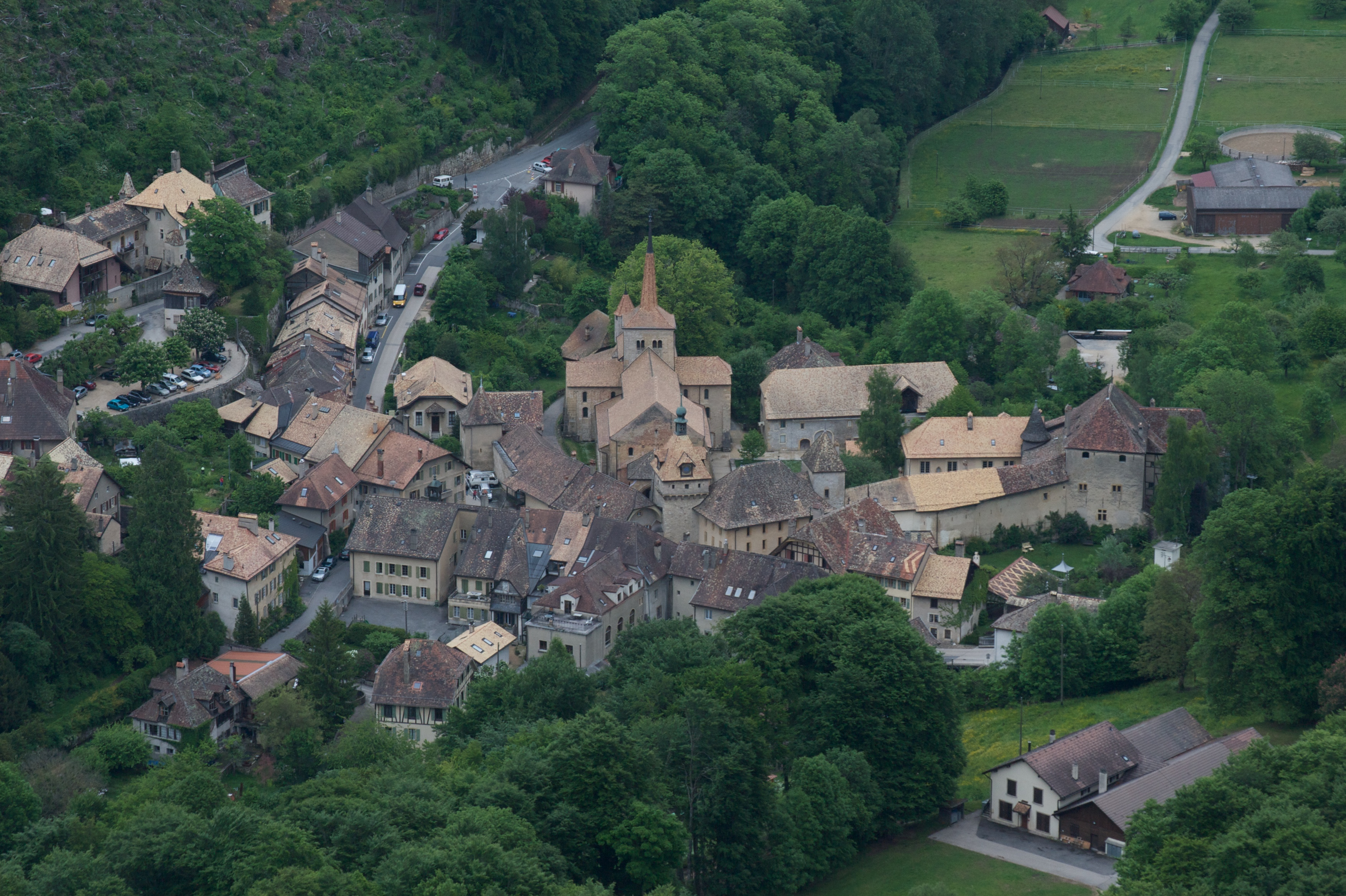 The mediaeval village of Romainmôtier, clustered around its romanesque Abbey Church.